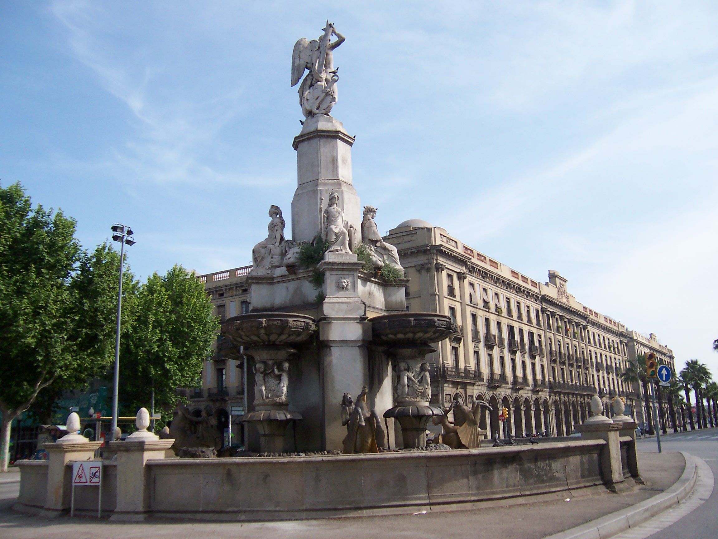 Port Vell, Barcelona.